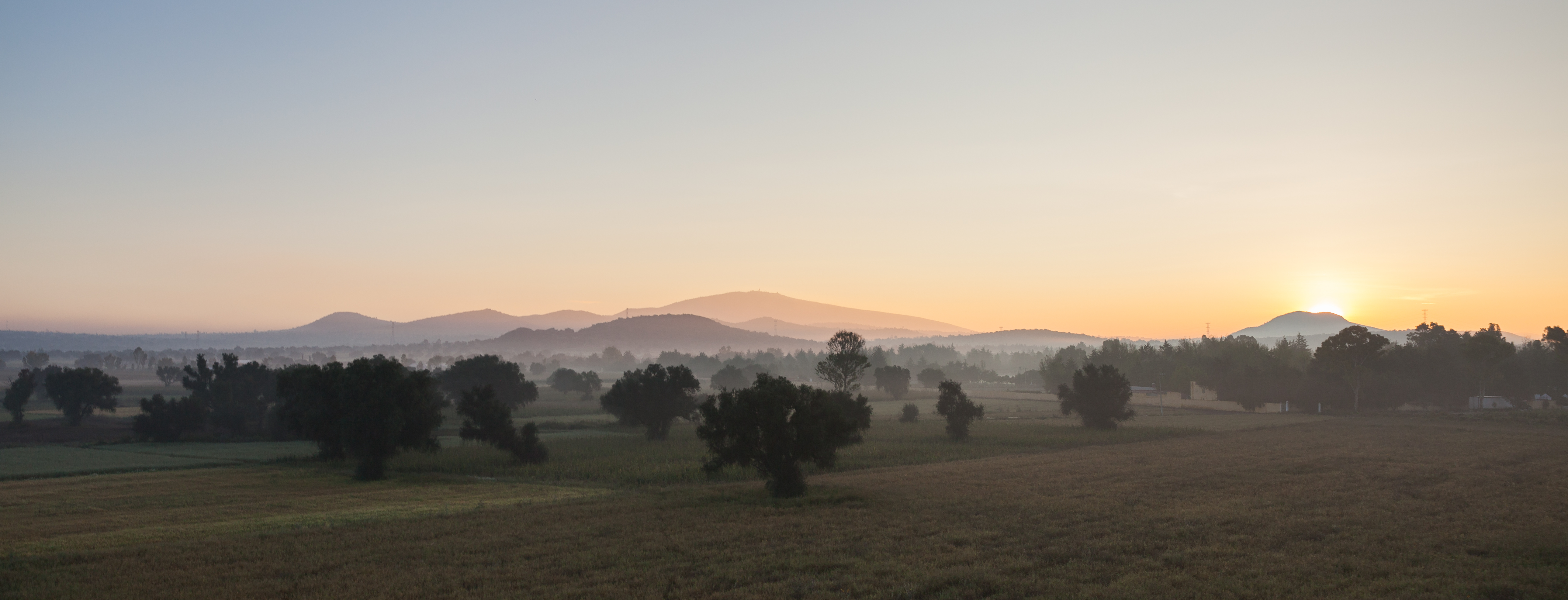 Sunrise landscape in Huitzila, Hidalgo, Mexico.